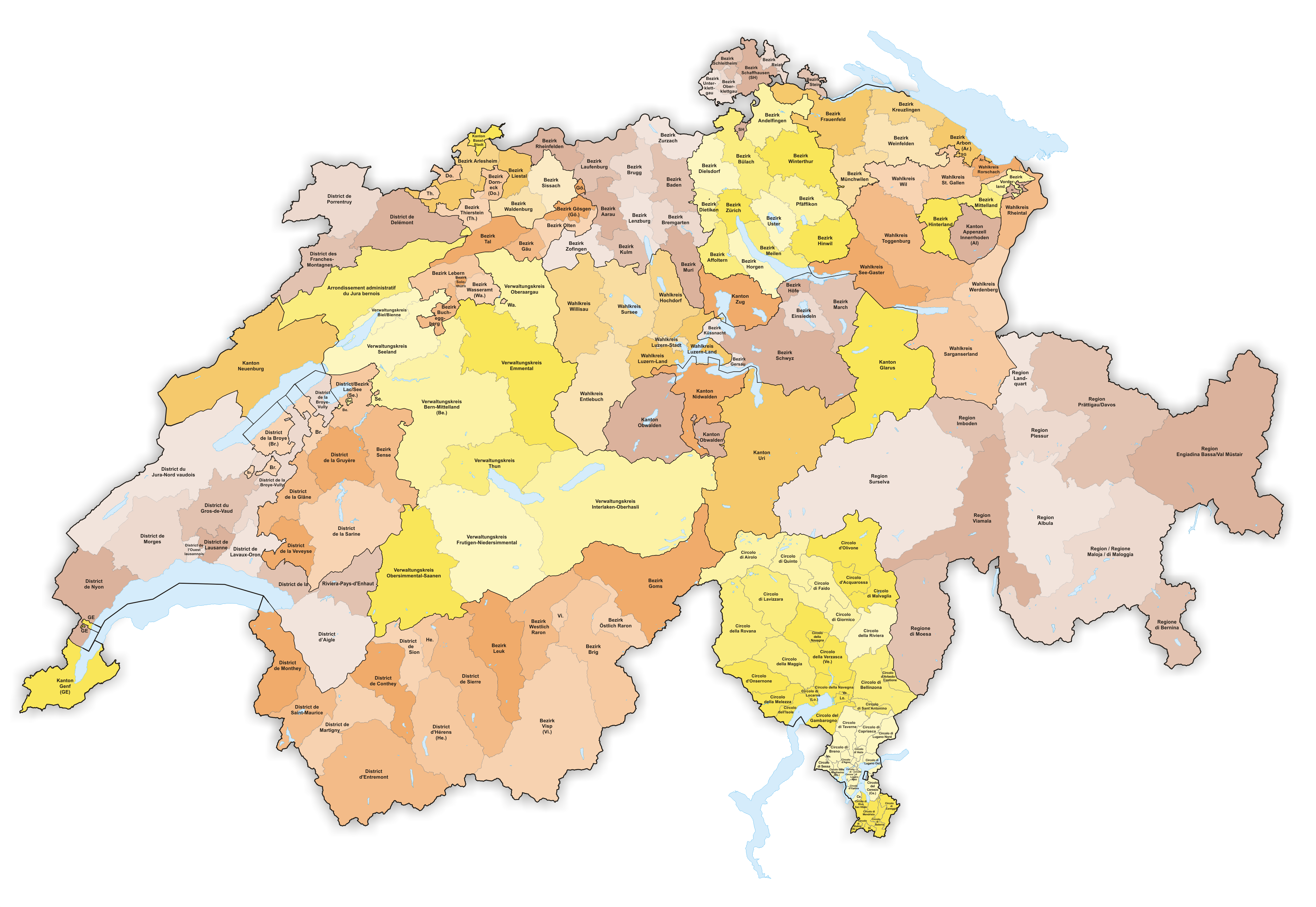 Districts and Sub Districts in Switzerland